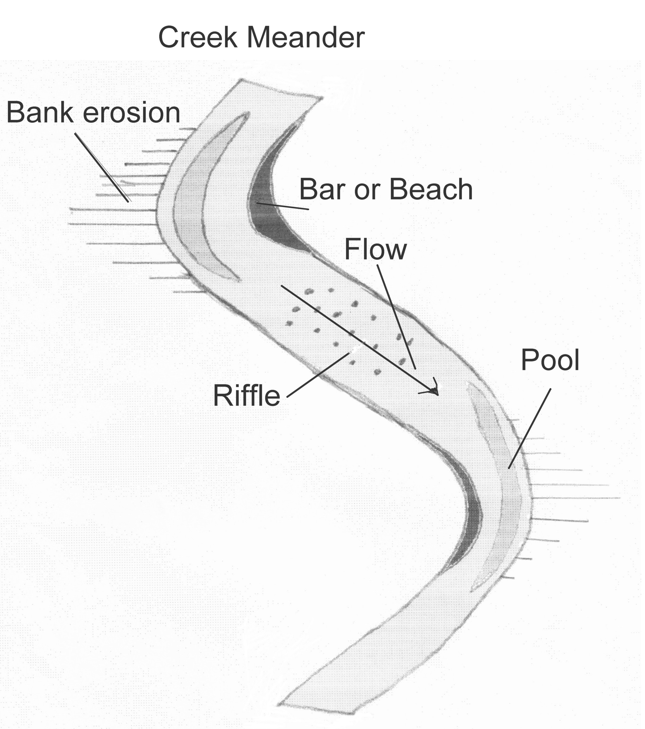 Diagram of a meander in a creek